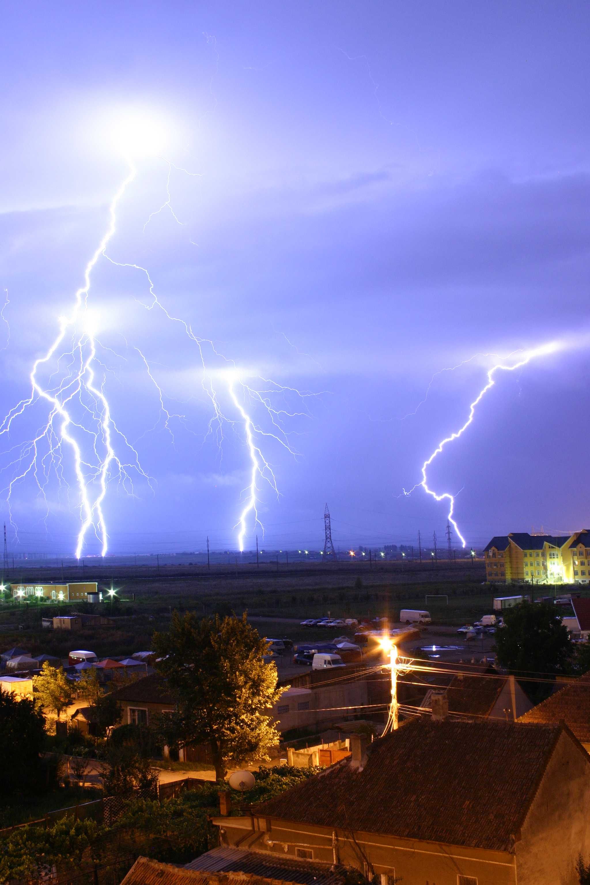 Lightning over the outskirts of Oradea, Romania, during the August 17, 2005 thunderstorm which went on to cause major flash floods over southern Romania.